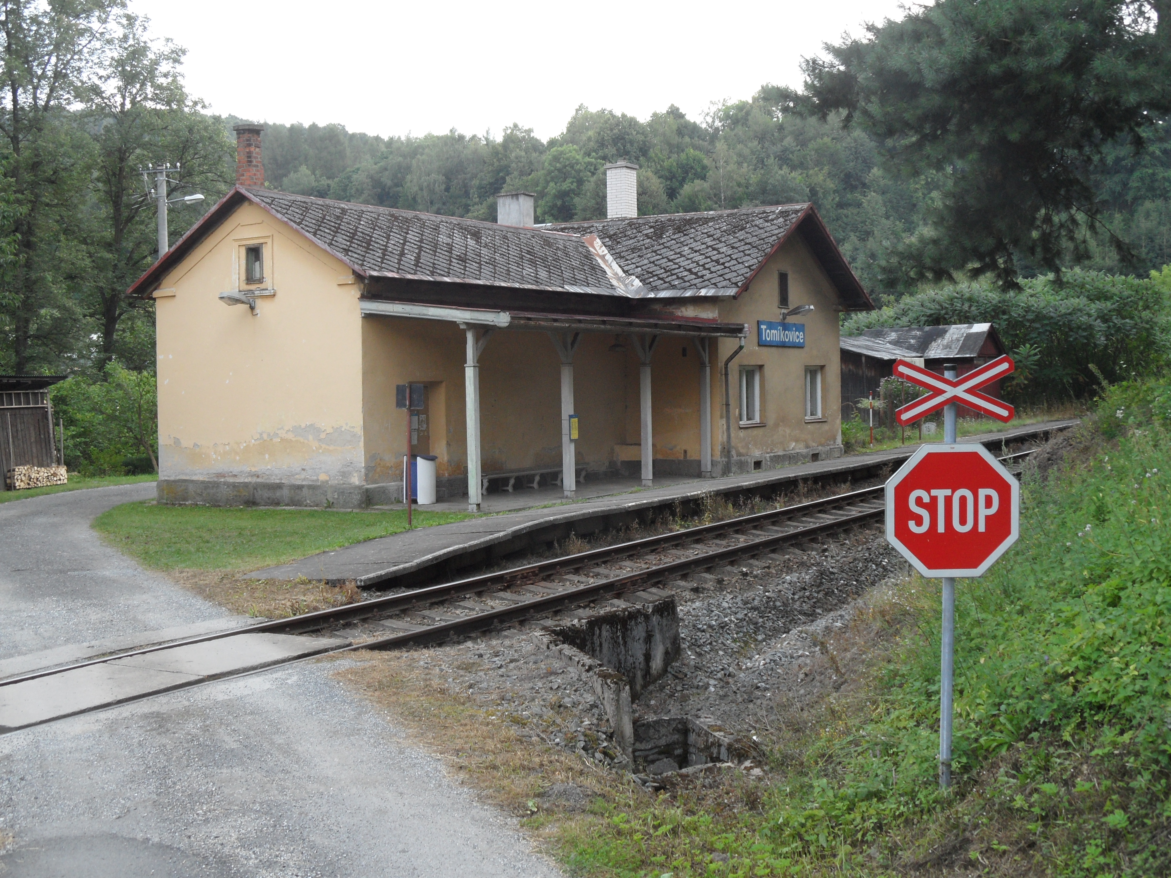 Tomíkovice: railway station and railway crossing (railway line 295 Lipová Lázně – Velká Kraš – Javorník ve Slezsku). Jeseník District, the Czech Republic.